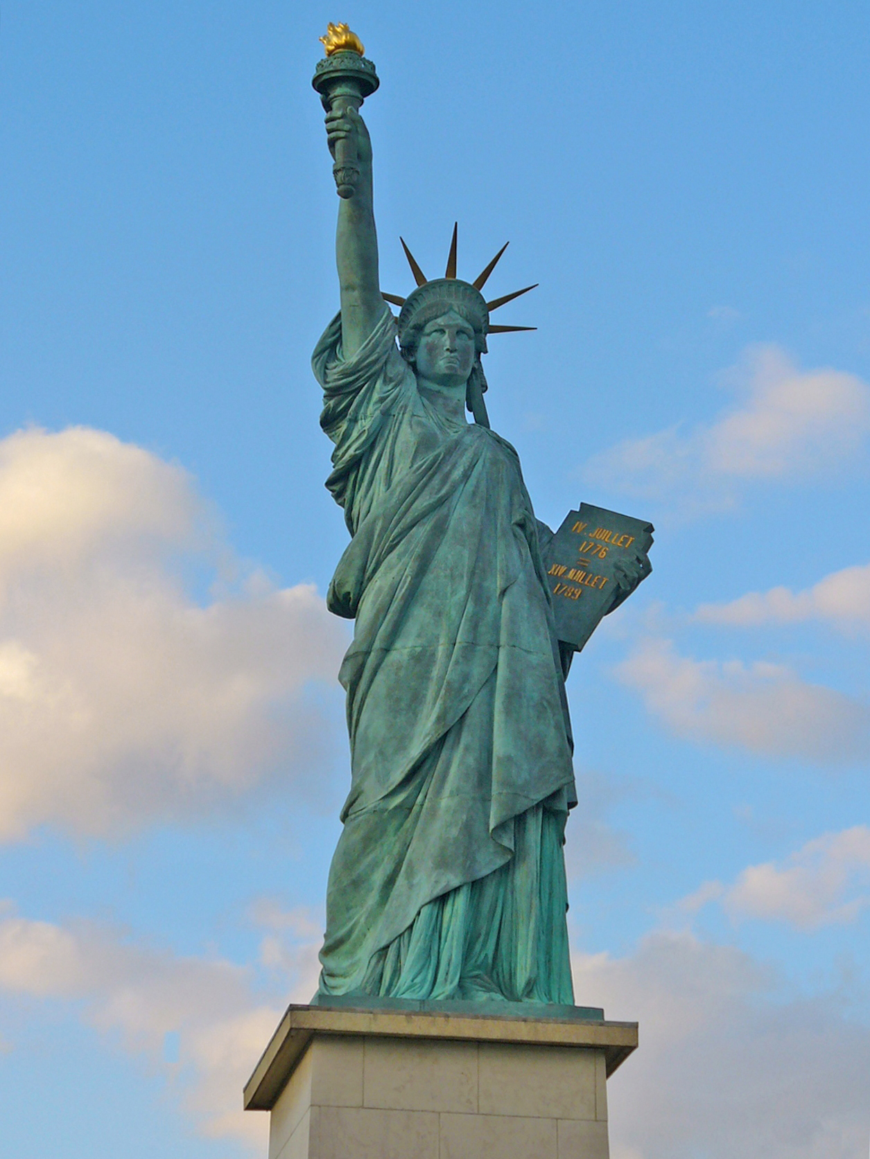 Statue of Liberty on the Île aux Cygnes in Paris, taken from a bateau-mouche.